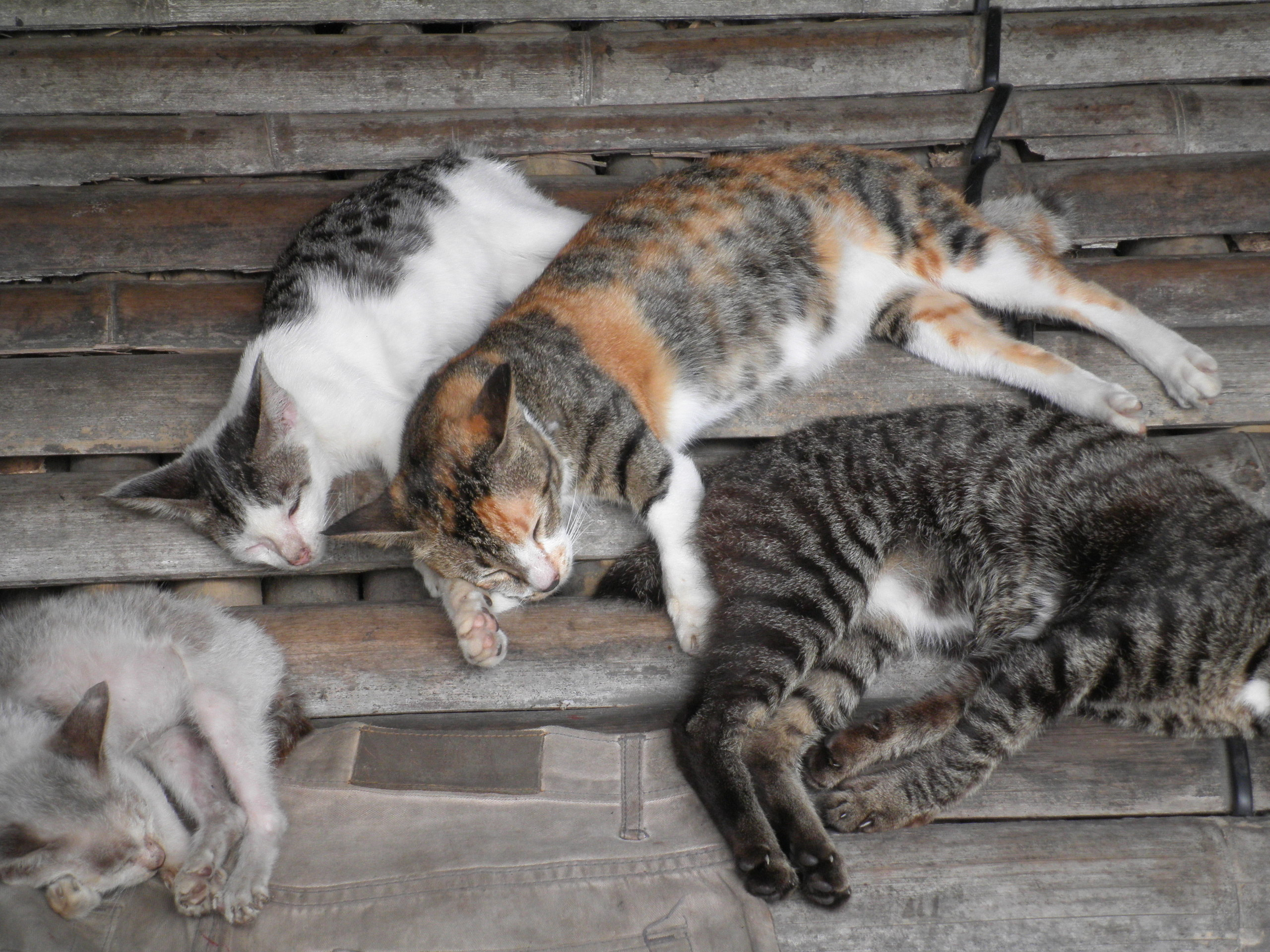 Description: Village strays resting somewhere outside a settlement in Sarawak. When not napping contently in each other's embrace they frequently fought over scraps picked up at the local shebeen/cafe/bush pub.